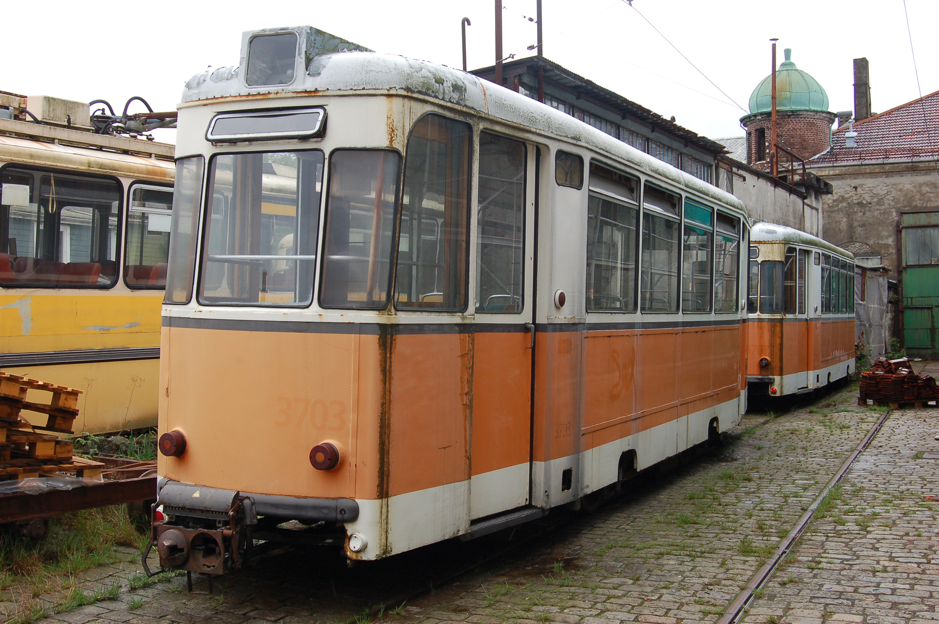 Two unrestored heritage trams in Bergen, Norway.